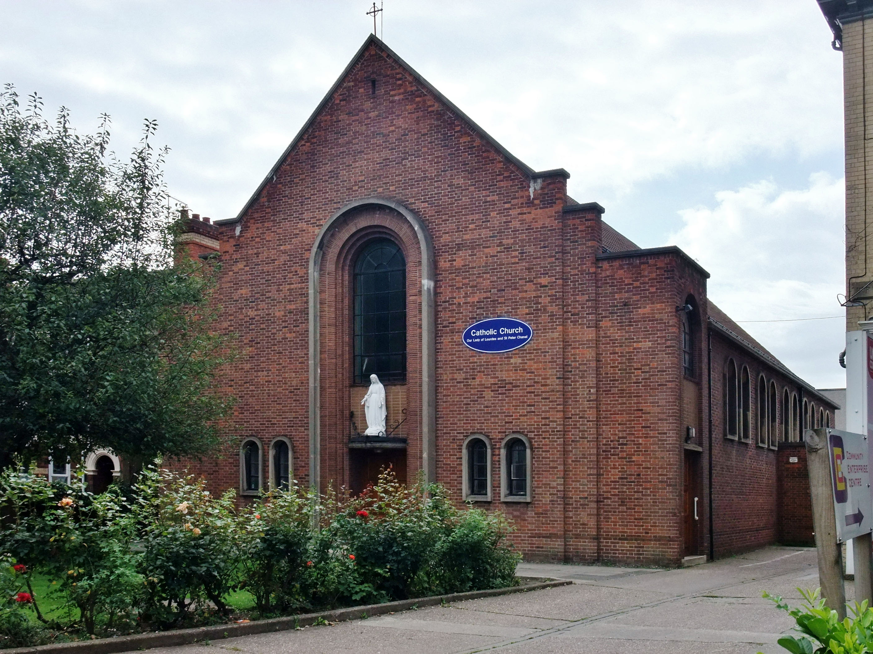 Cottingham Road, Kingston upon Hull